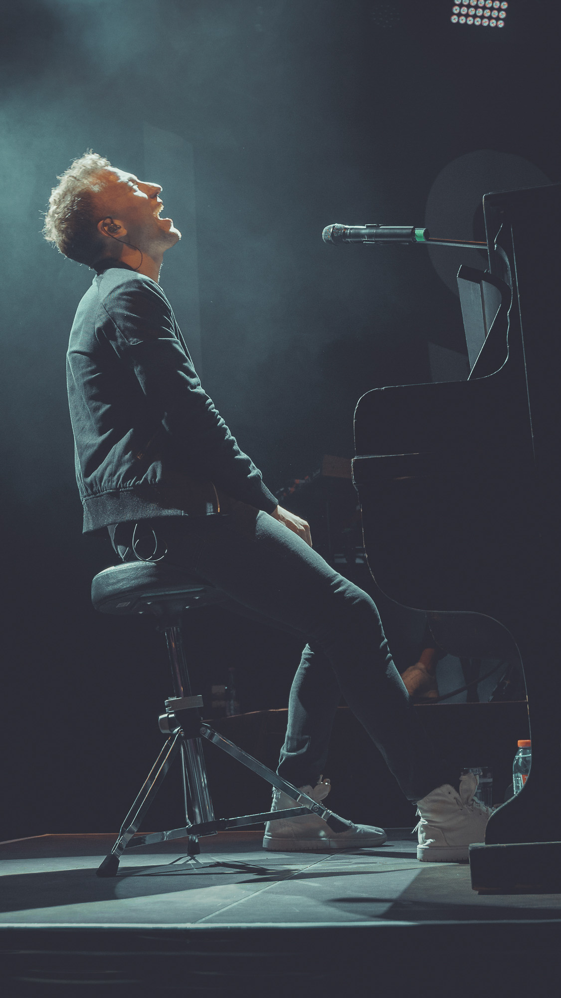 Joris foto from act in Leipzig